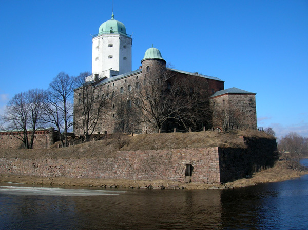 Vyborg Castle, as seen from the gulf.